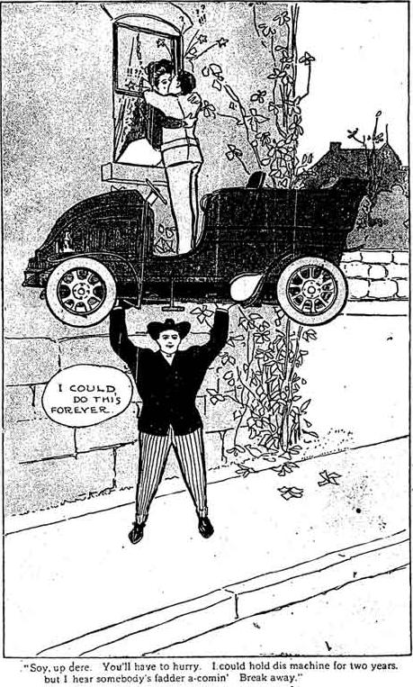 Panel from the October 26, 1902 edition of the Hugo Hercules comic strip that ran from September 1902 to January 1903. By the way, if people read the bottom caption and get confused by the word "fadder", that's Chicagoan for "father". He is basically telling the suitor that the girl's father is coming so he must stop kissing.